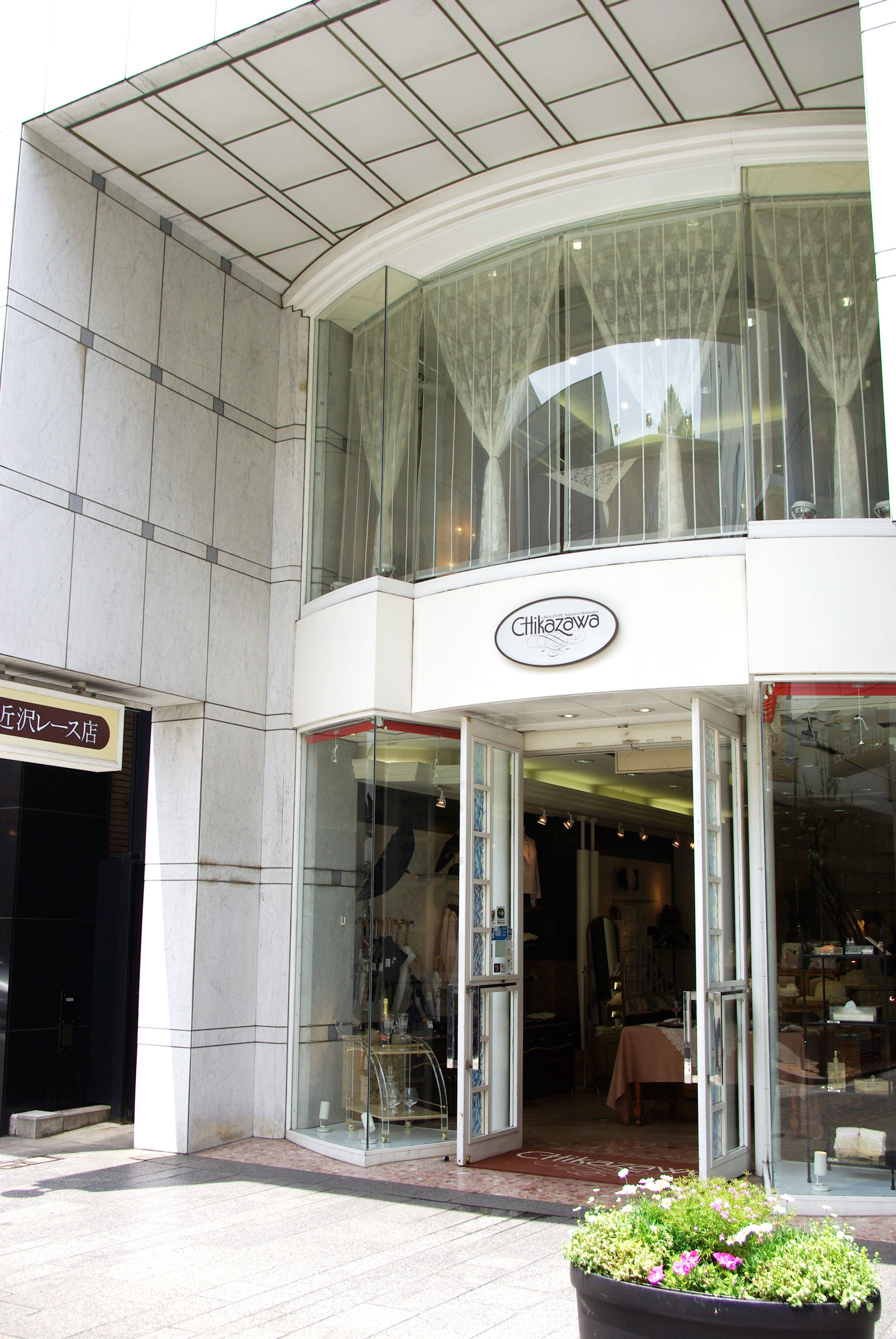 ChikazawalaceshopB from Yokohama,Japan